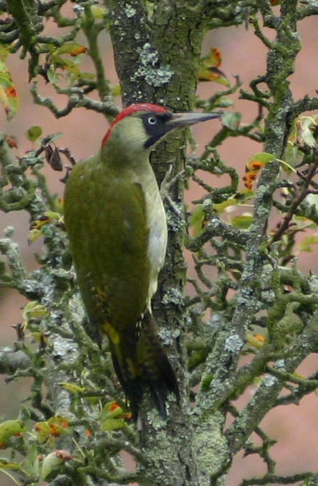 The Green Woodpecker (Picus viridis) is a member of the woodpecker family Picidae. There are four subspecies and it occurs in most parts of Europe and in western Asia. All have green upperparts, paler yellowish underparts, a red crown and moustachial stripe which has a red centre in males but is all black in females.